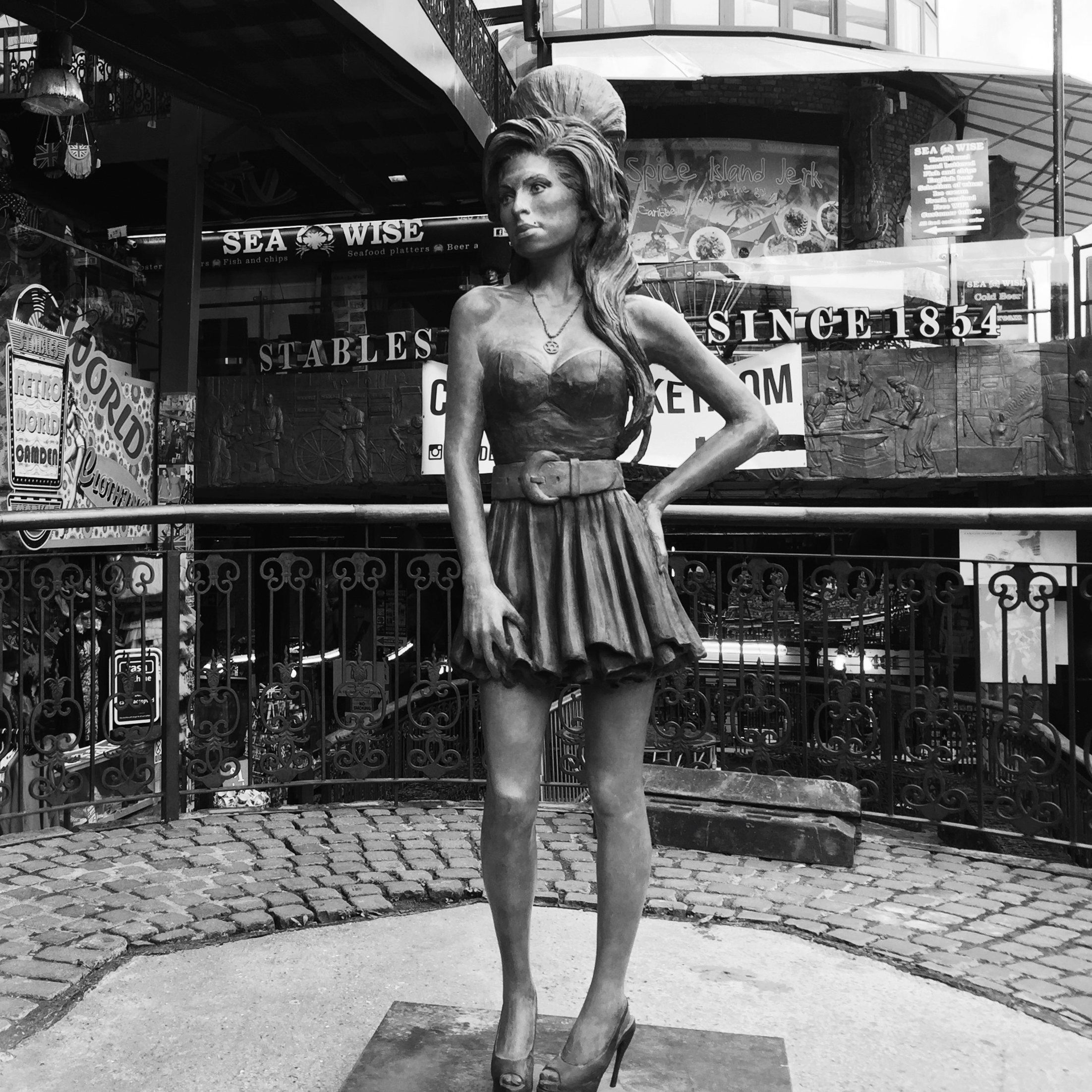 Amy Winehouse statue in Camden Stables Market.